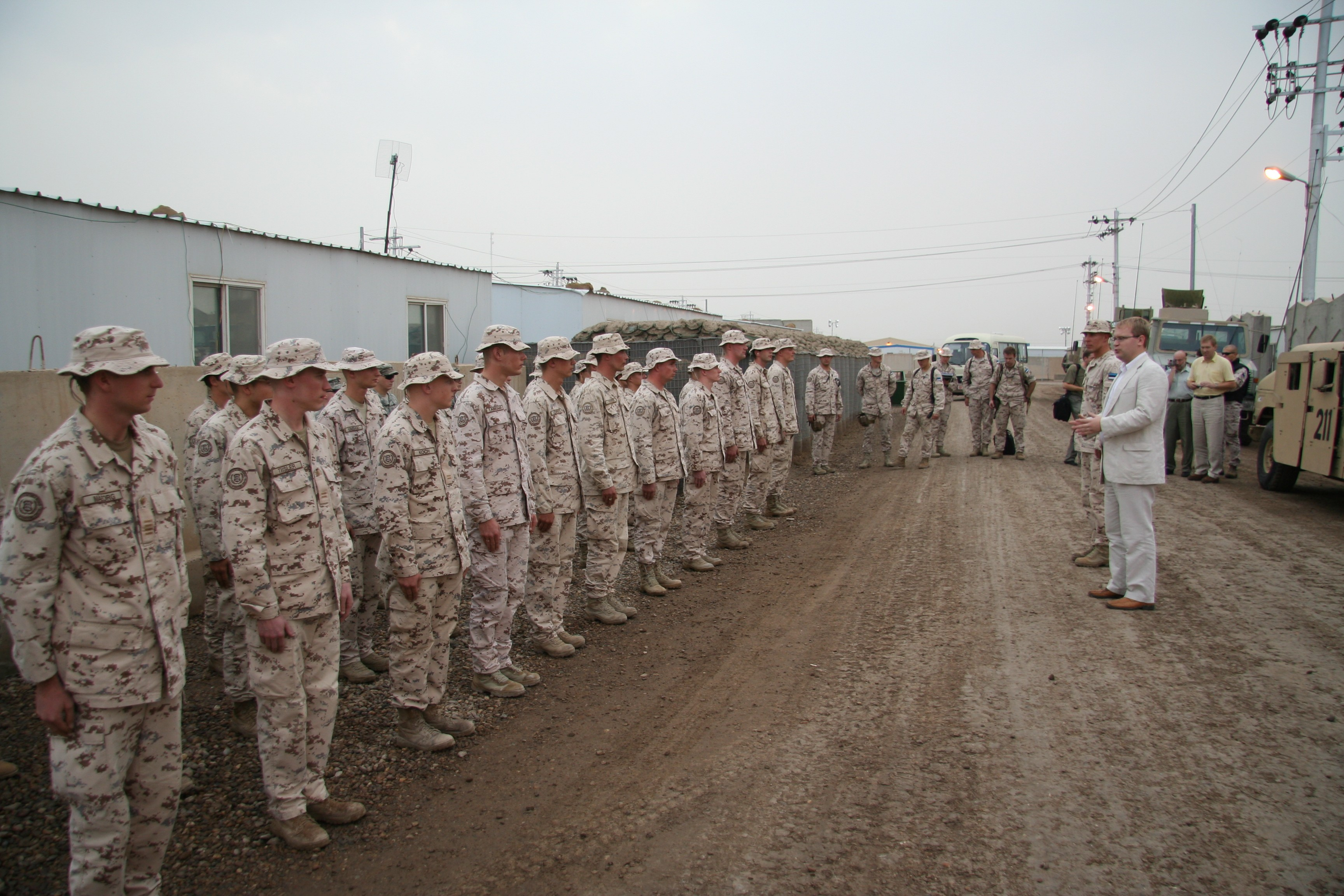 Foreign Minister Urmas Paet addresses Estonian soldiers stationed in Iraq.